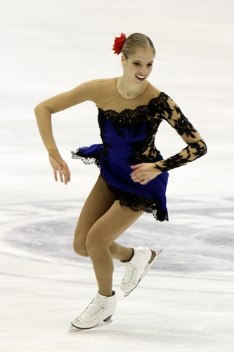 Carolina Kostner at the 2010 NHK Trophy.